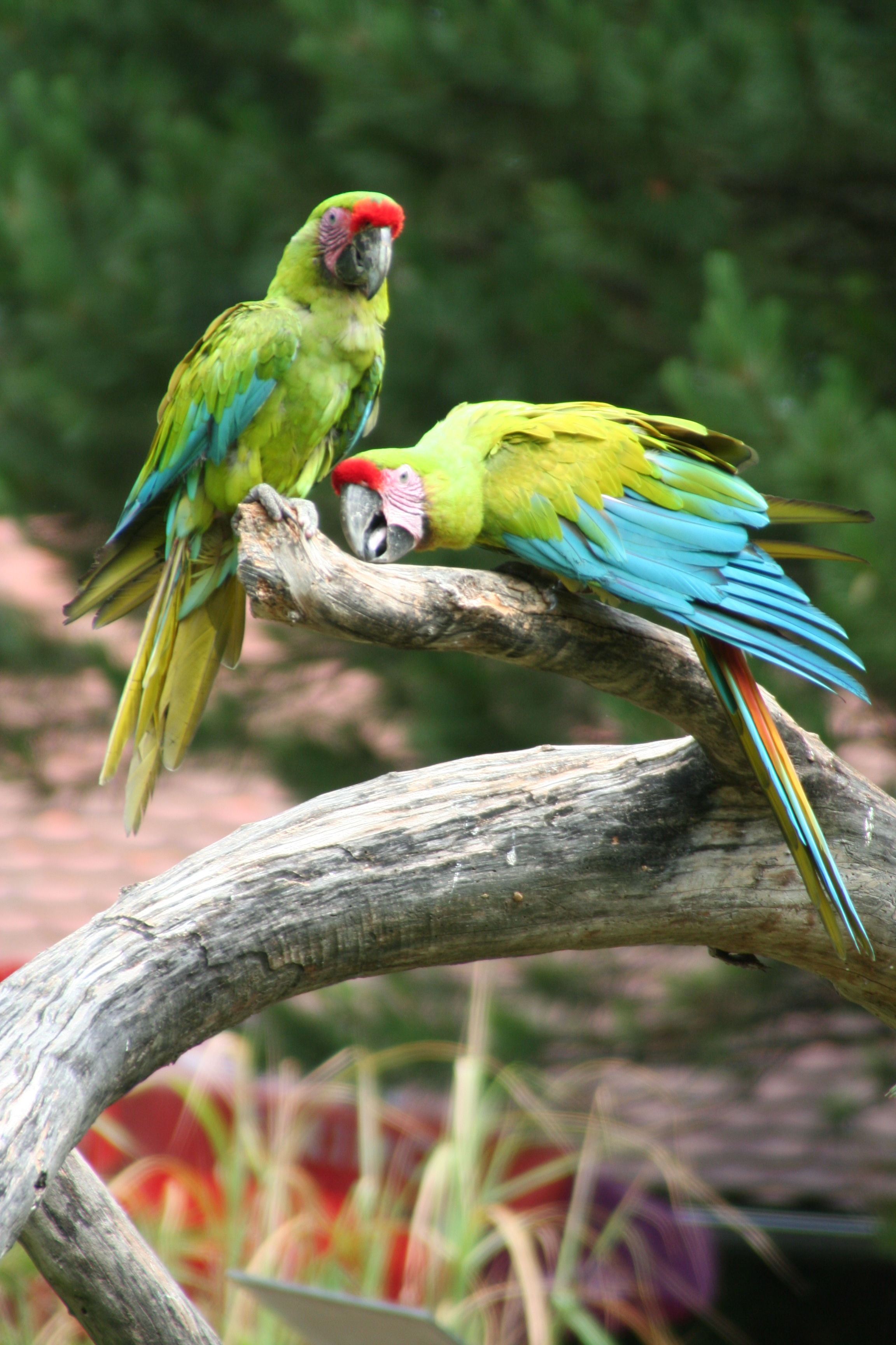 Ara ambigua from Zoo Schmiding